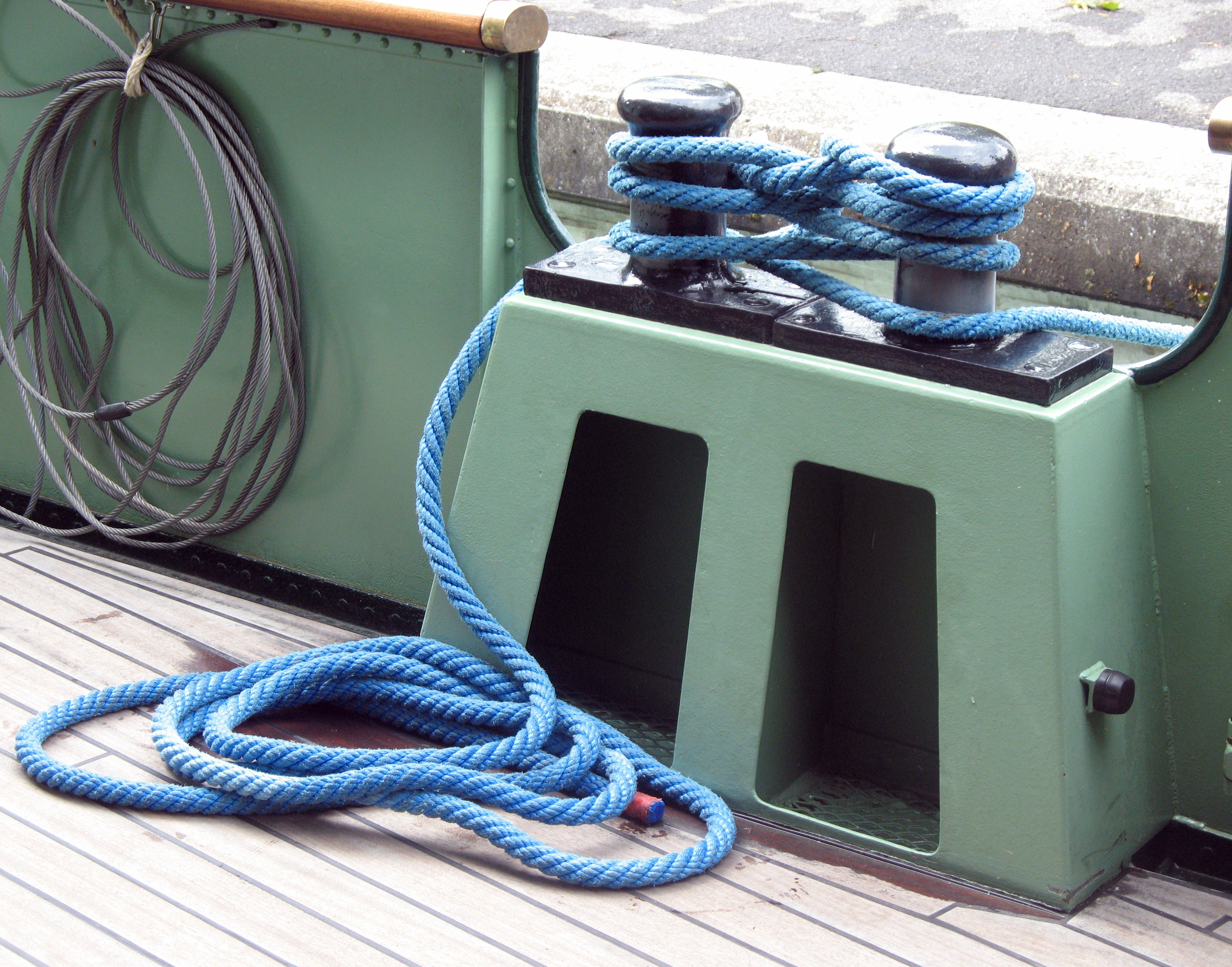 The ferry of Lake Brienz, Switzerland